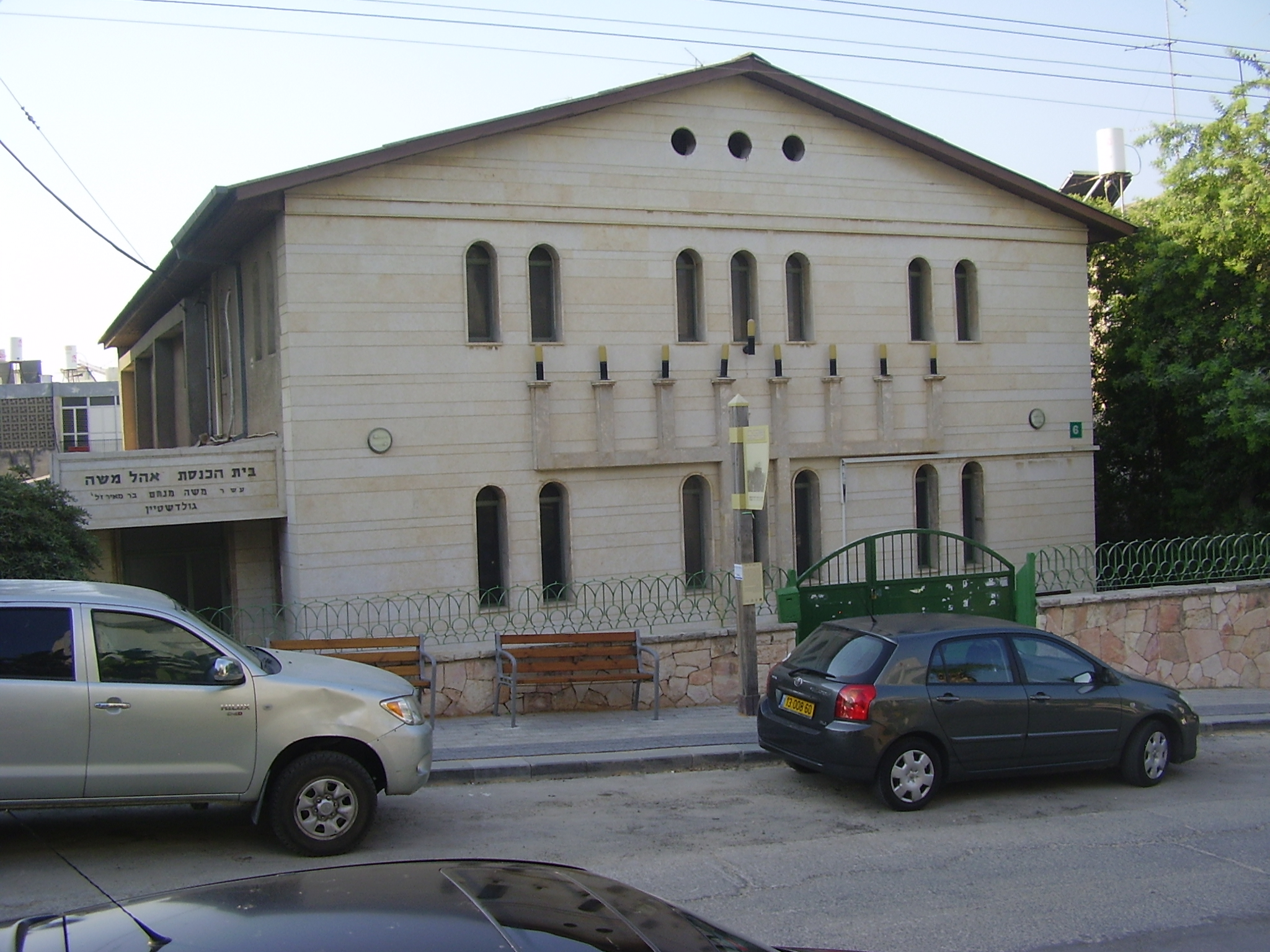 ohel moshe in borochov neighborhood, giv'atayim בית הכנסת אהל משה ברח' גורדון 6 בשכונת בורוכוב בגבעתיים